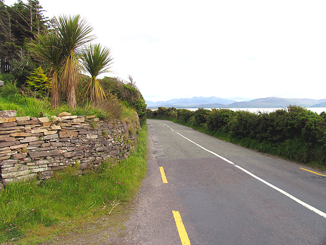 R561 from Inch to Anascaul. The road runs along the coast for some kilometres before turning inland to Anascaul. This view of the road looking east, was taken more or less where it intersects with a minor road coming in from the north east and the driveway of the house marked on the map.